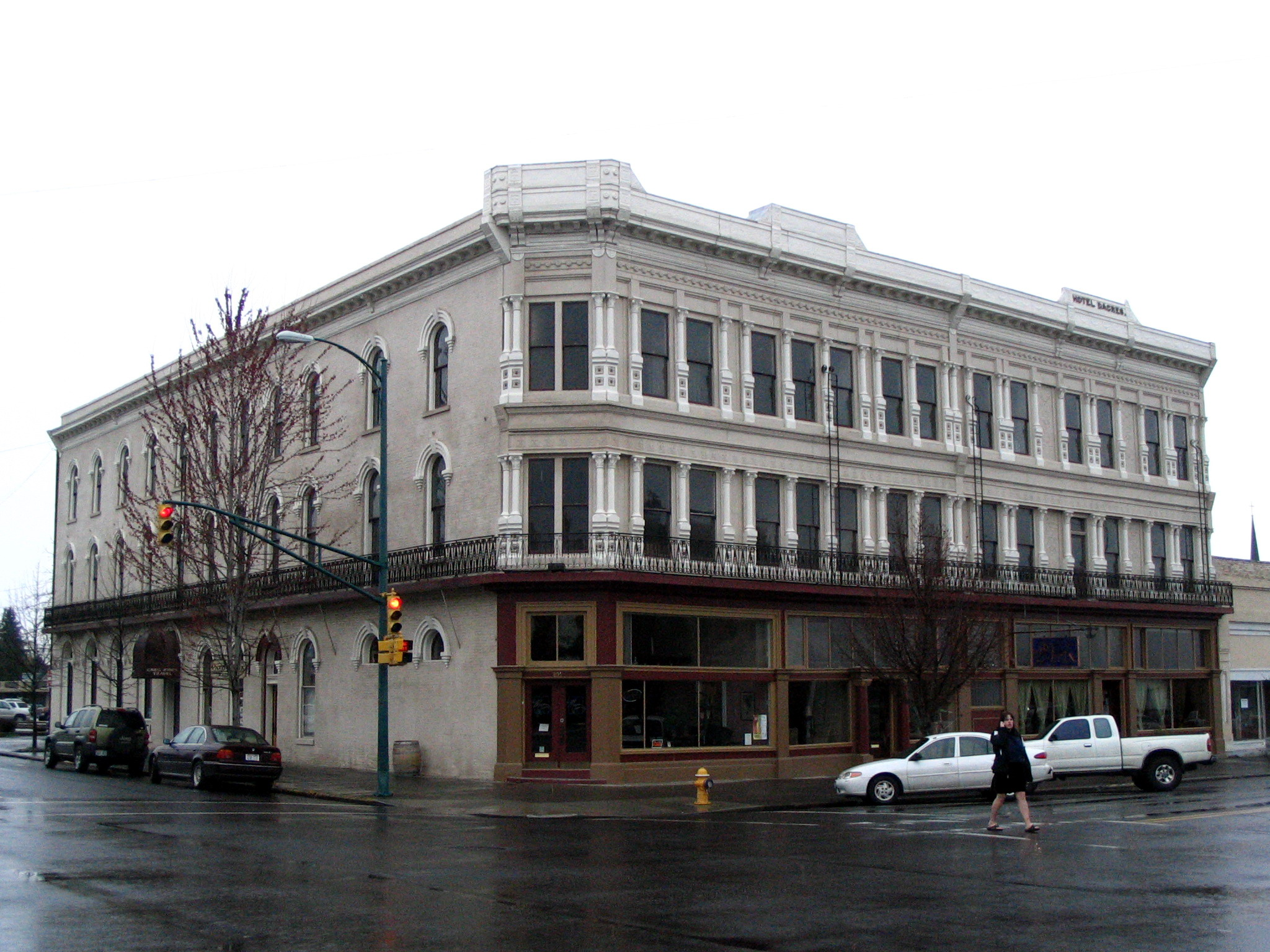 The historic Dacres Hotel in Walla Walla, Washington. Originally built in 1873 as the Stine House hotel and expanded in 1882, It was rebuilt in 1899 after a fire but the original east and south walls remain intact.